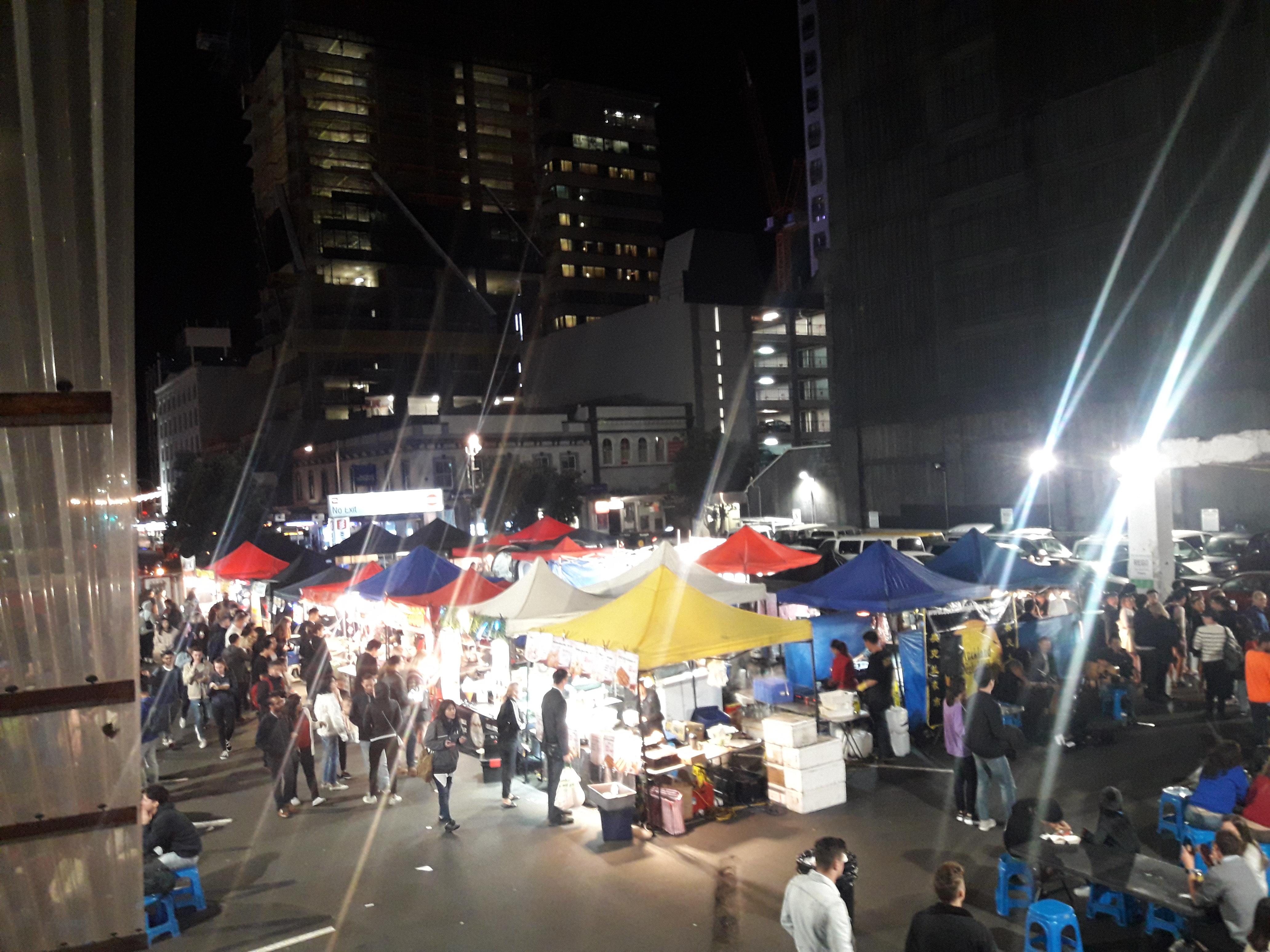 Night market in Auckland CBD